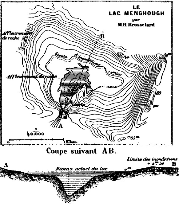 Map and cross-section of Lake Menghough, visited by the Flatters expedition in 1881